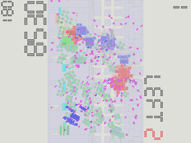 Screenshot of the freeware video game Noiz2sa